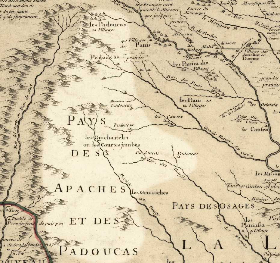 Comanche (Padoucas) territory, 1718, approximate area highlighted, from Carte de la Louisiane et du cours du Mississipi by Guillaume de L'Isle. My contributions cleaning and highlighting are also donated to Public Domain. Bill Whittaker 17:48, 15 December 2009 (UTC)